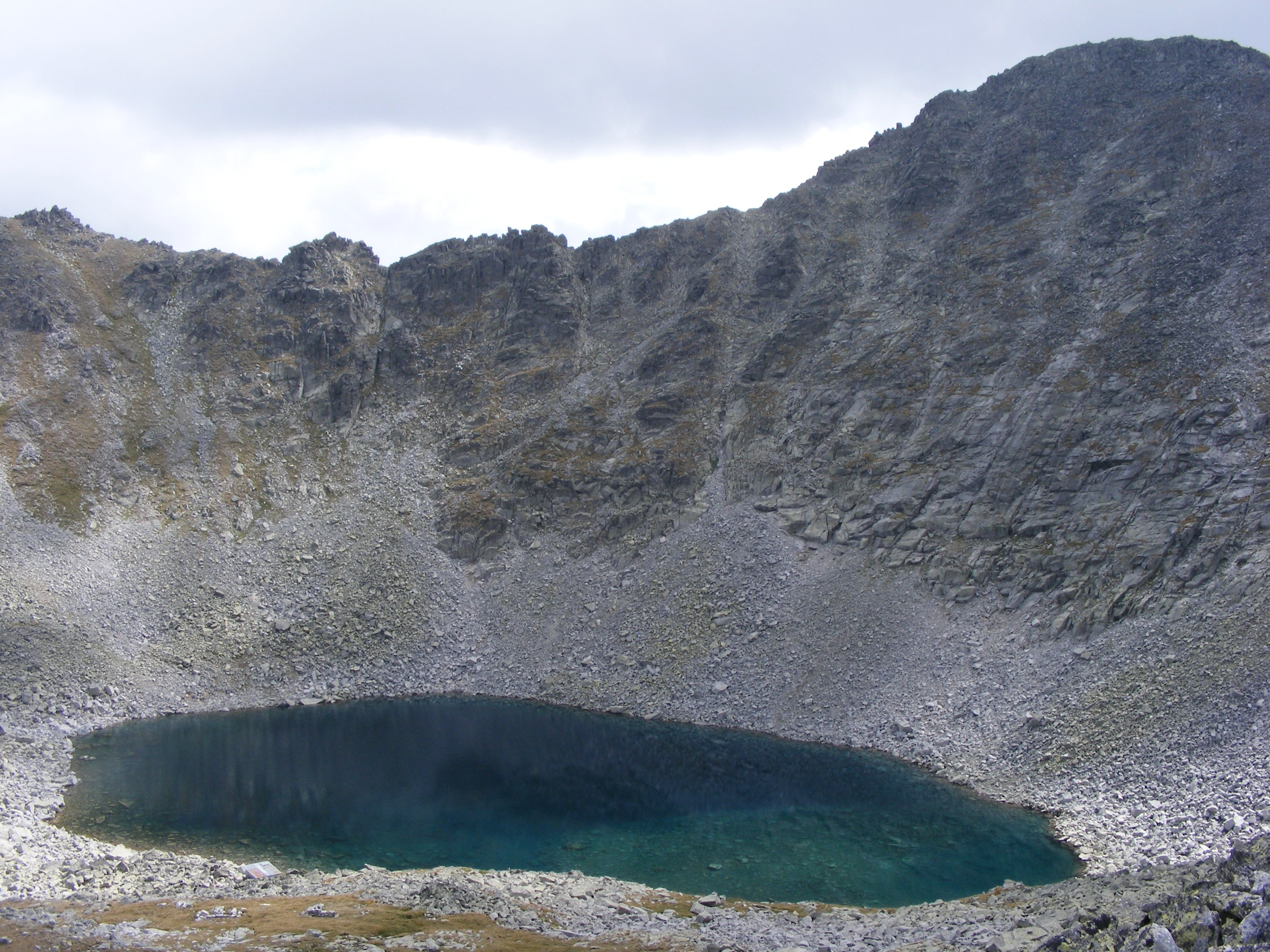 The Icy Lake (Леденото езеро in Bulgarian), 2709 meters above sea level, and the peak Little Musala (2902 m) in Rila, Bulgaria.